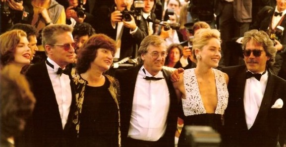 Presentation of the film Basic Instinct at the Cannes film festival. Left from right : stars Jeanne Tripplehorn and Michael Douglas, Paul Verhoeven's wife Martine Tours, director Paul Verhoeven, star Sharon Stone and producer Mario Kassar